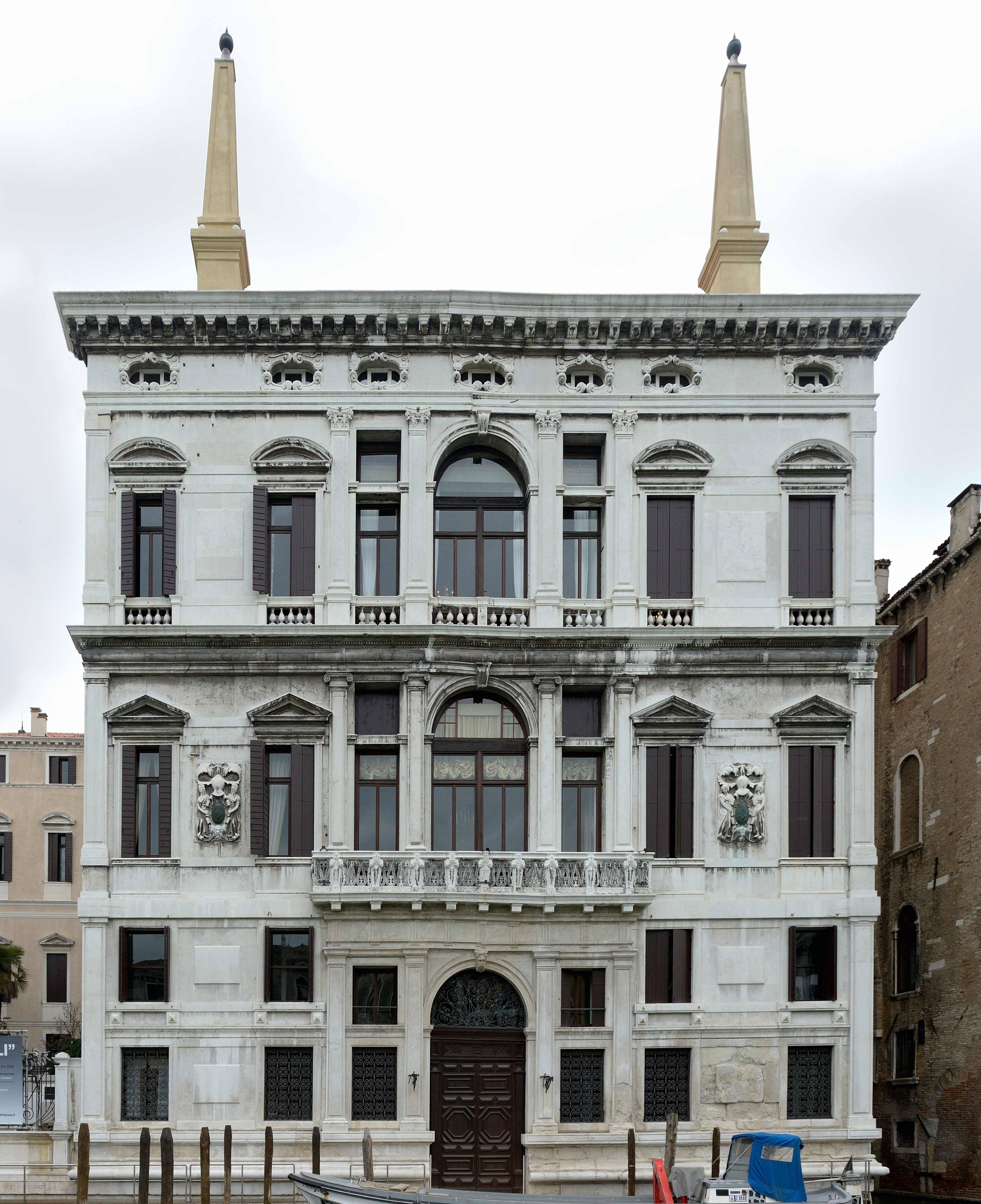 Palazzo Papadopoli in Venice. Facade on Grand Canal.